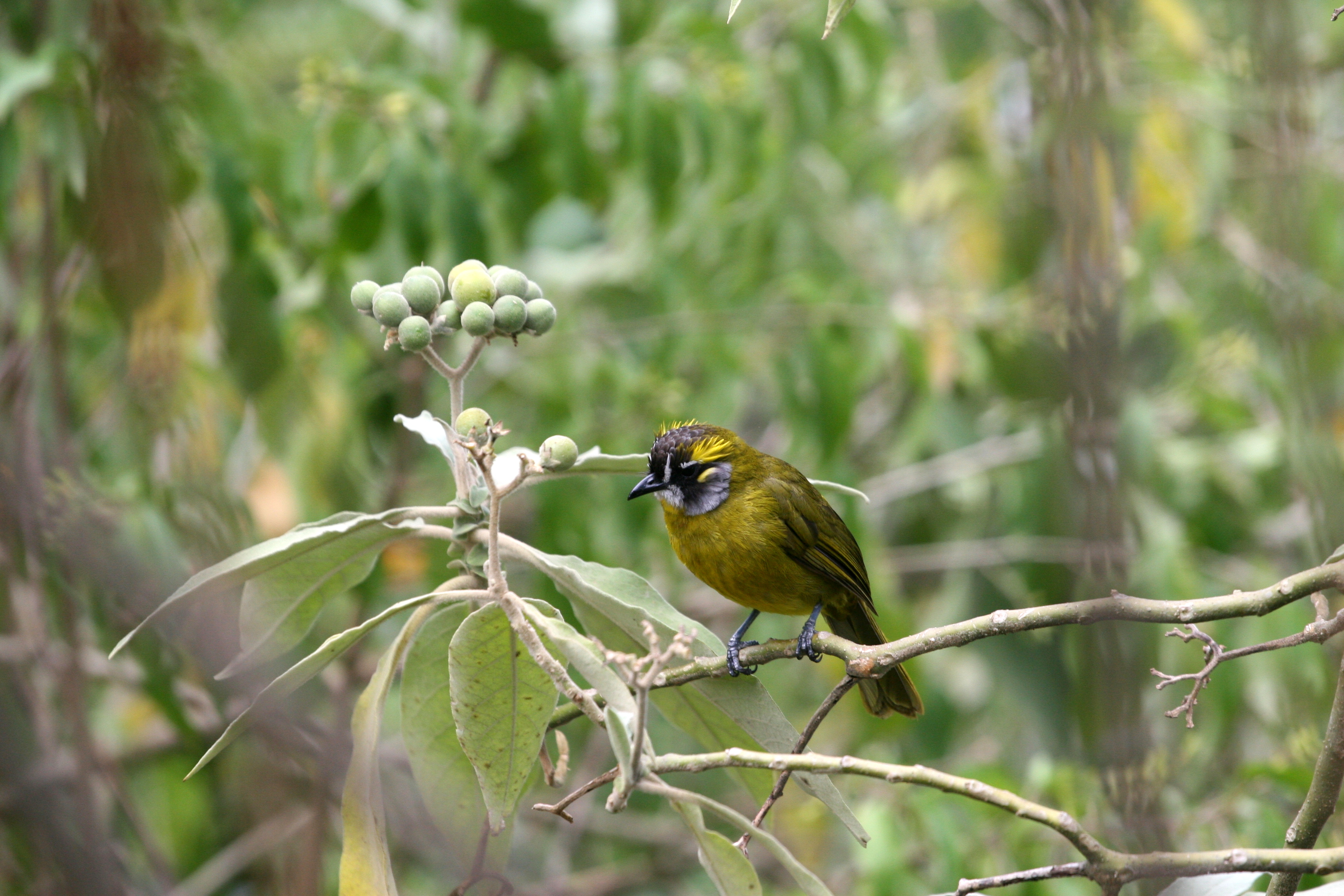 Yellow browed bulbul at Nuwara Eliya